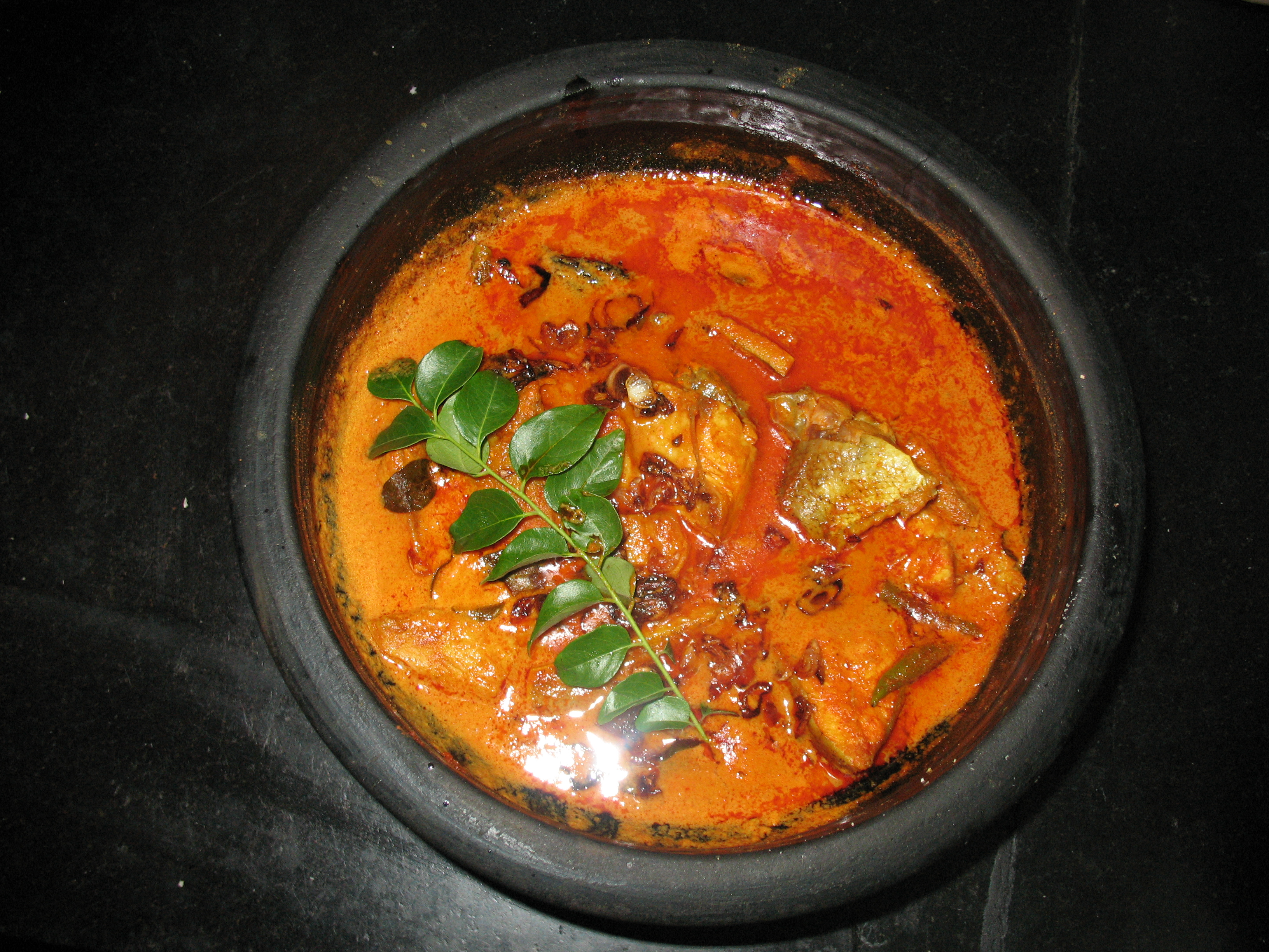 Fish Curry prepared in Kerala style. its prepared in a pot mad of clay (Manchatti). Should keep the curry for a day, it will be Yammy !!